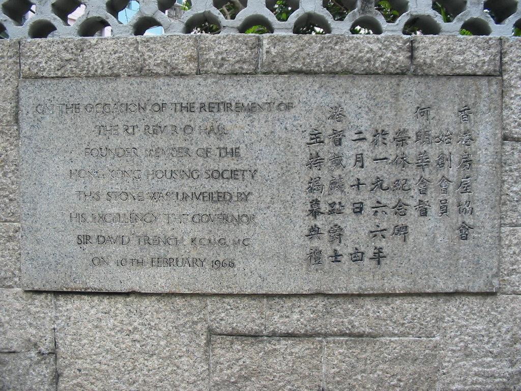 Stela of Ming Wah Dai Ha 何明華會督